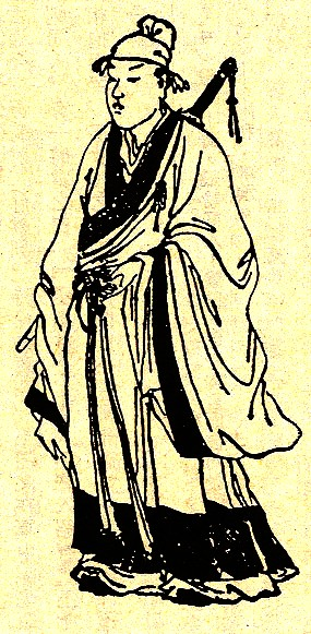 Portrait of Guo Jia from a Qing Dynasty edition of the Romance of the Three Kingdoms